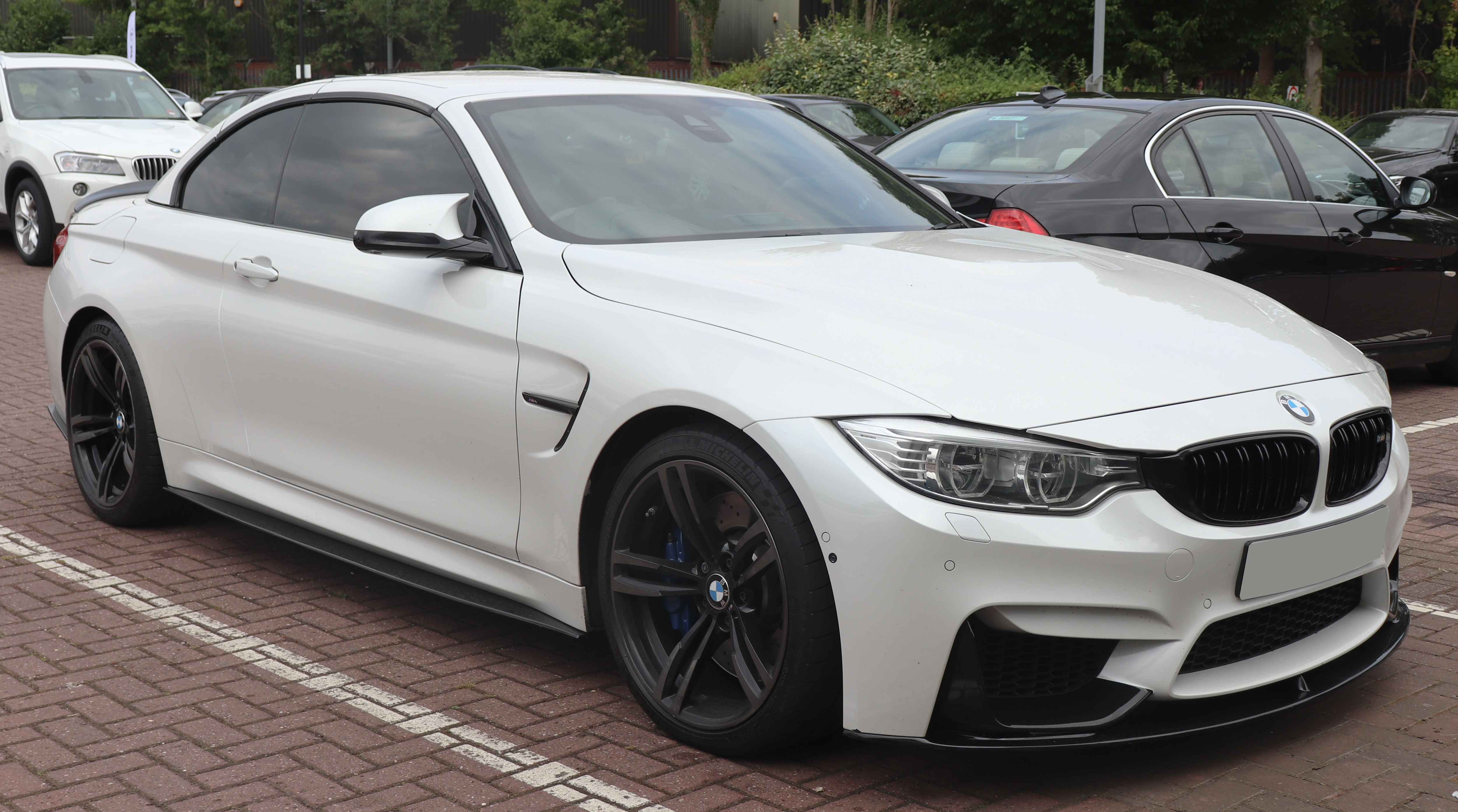 2014 BMW M4 3.0 Front Taken in Leamington Spa